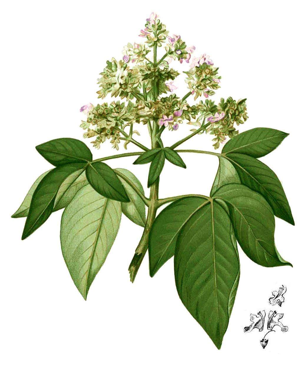 Plate from book